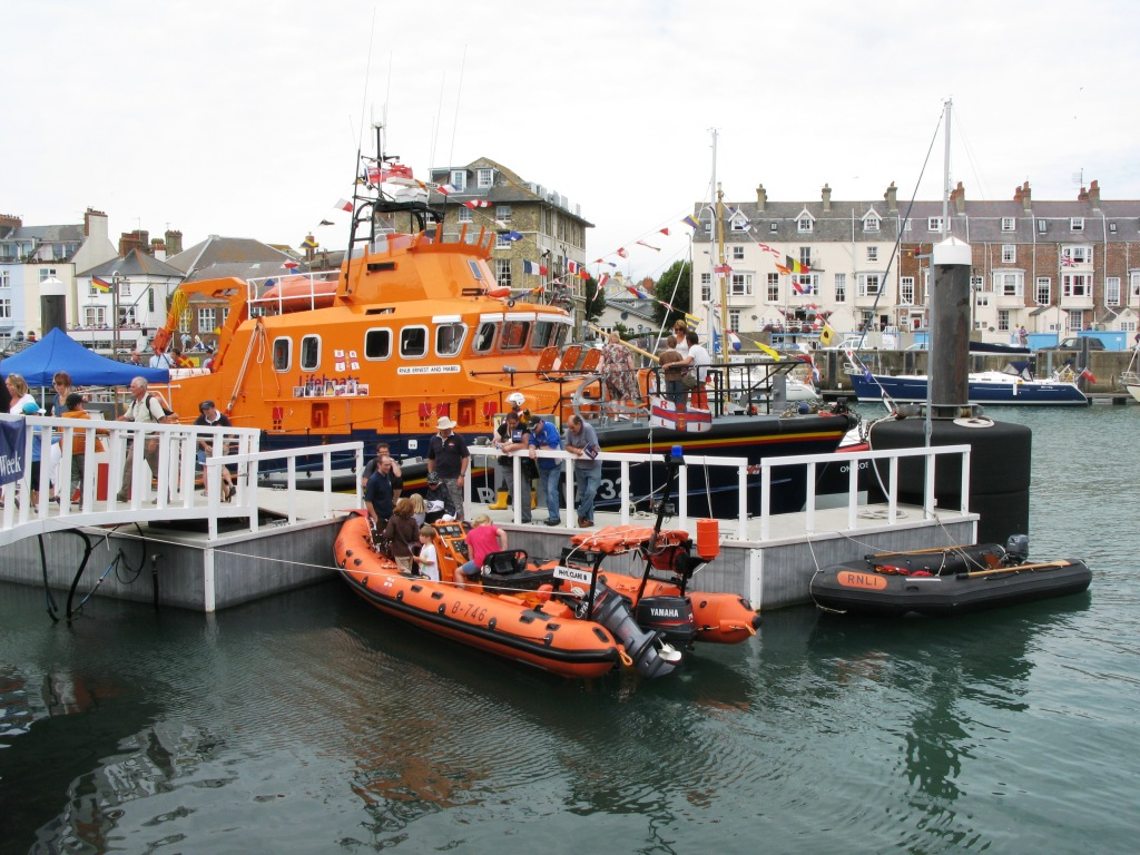 The Weymouth lifeboats at the pontoon outside the lifeboat station. Nearest is B746 Phyl Clare 3, an Atlantic 75 inshore lifeboat; on the far side is Severn Class 17-32 RNLB Ernest and Mabel; on the right is a boarding boat.